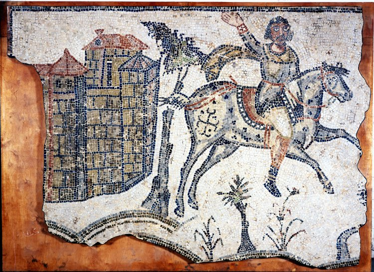 Mosaic pavement from British museum. Excavated at Bordj-Djedid in 1857 (Africa,Tunisia, Carthage). Date: 5thC(late)-6thC(early). Culture: Vandal or late Roman.